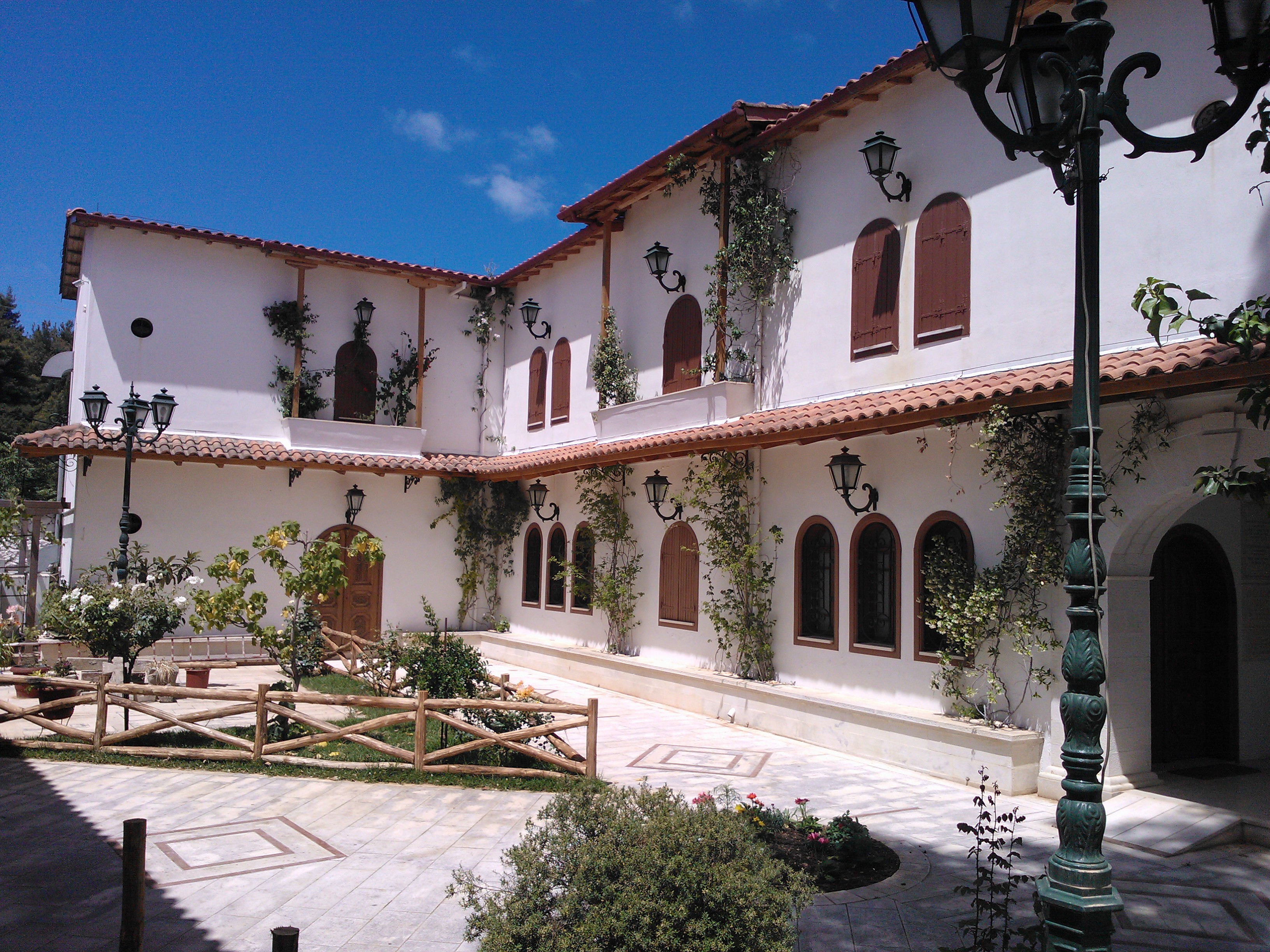 Monastery of Panagia Faneromeni in Lefkada